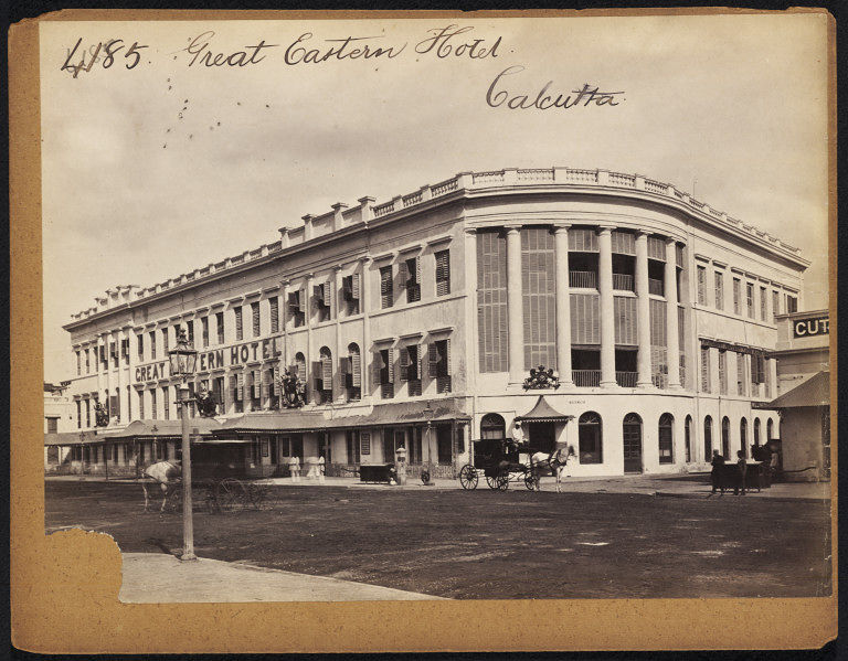 Photograph of Great Eastern Hotel in Calcutta, India, taken at some time between 1850 and 1870. Now preserved in Victoria and Albert Museum.